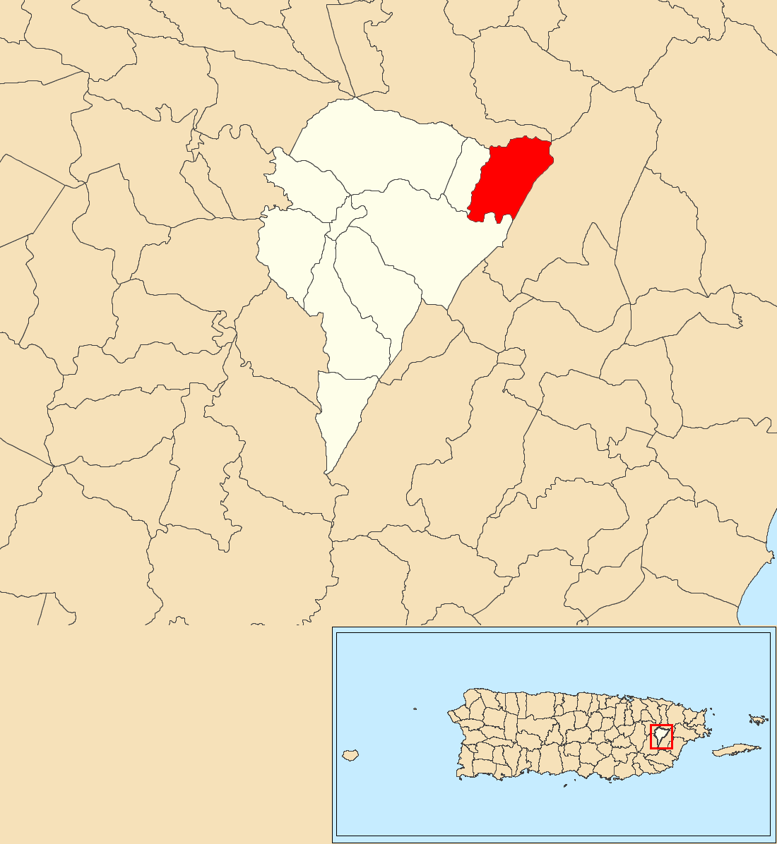 Caimito, Juncos, Puerto Rico locator map